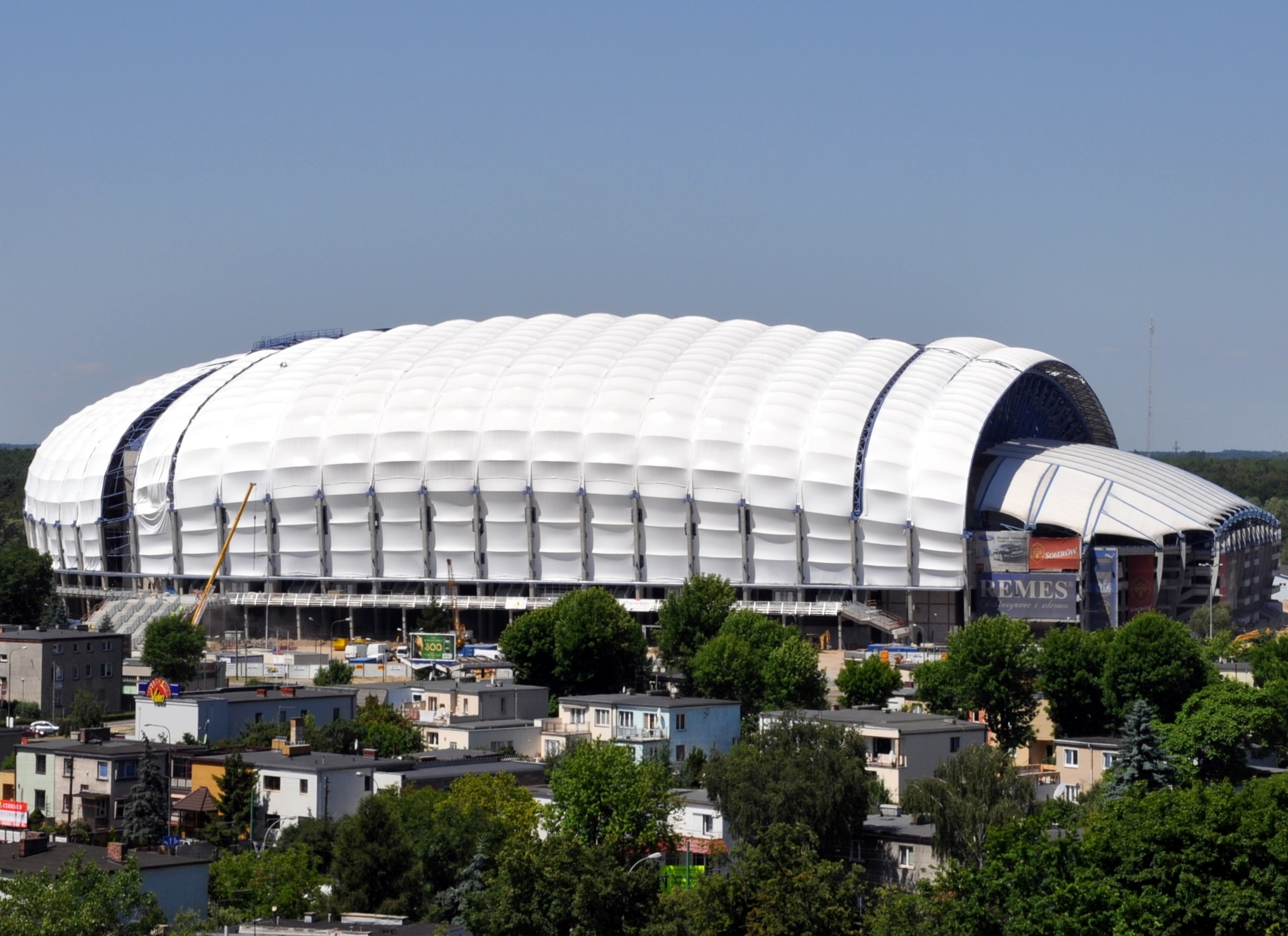 The Municipal Stadium in Poznań